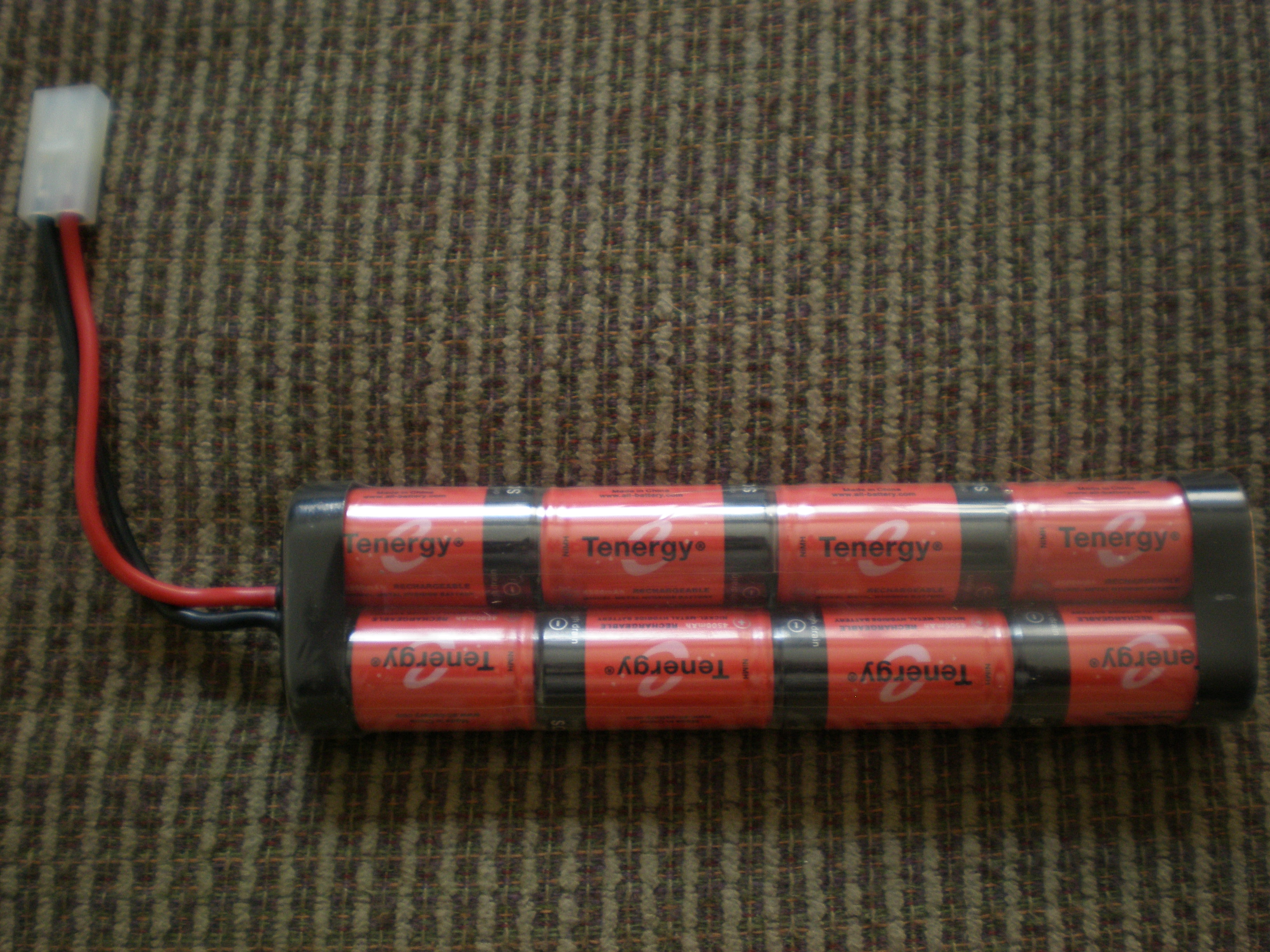 An airsoft 4500 mAh Ni-MH rechargeable pack of 8 batteries.